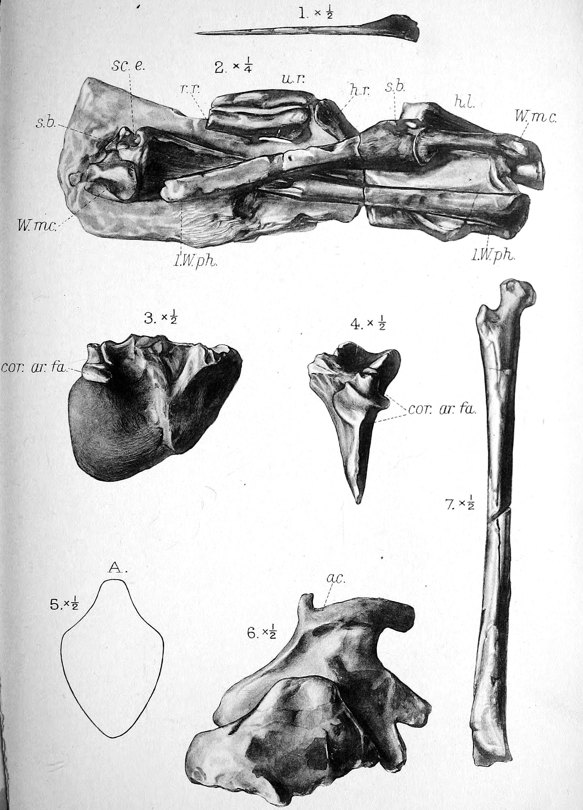 Block of Istiodactylus latidens specimen NHMUK R3878 with limb-bones, sternum and ischium of NHMUK R3877